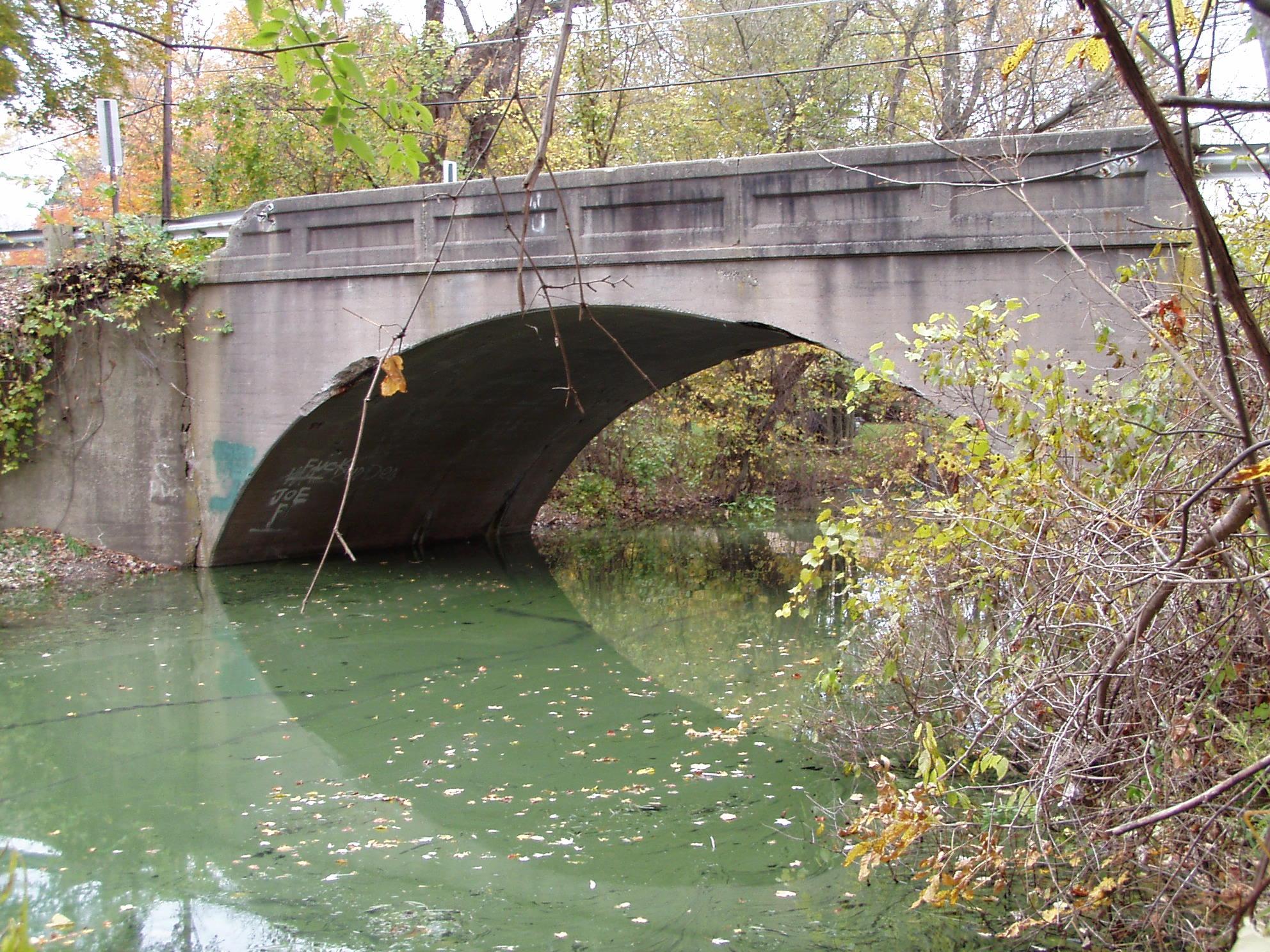 Watervliet Road Bridge, Watervliet, Berrien County, Michigan